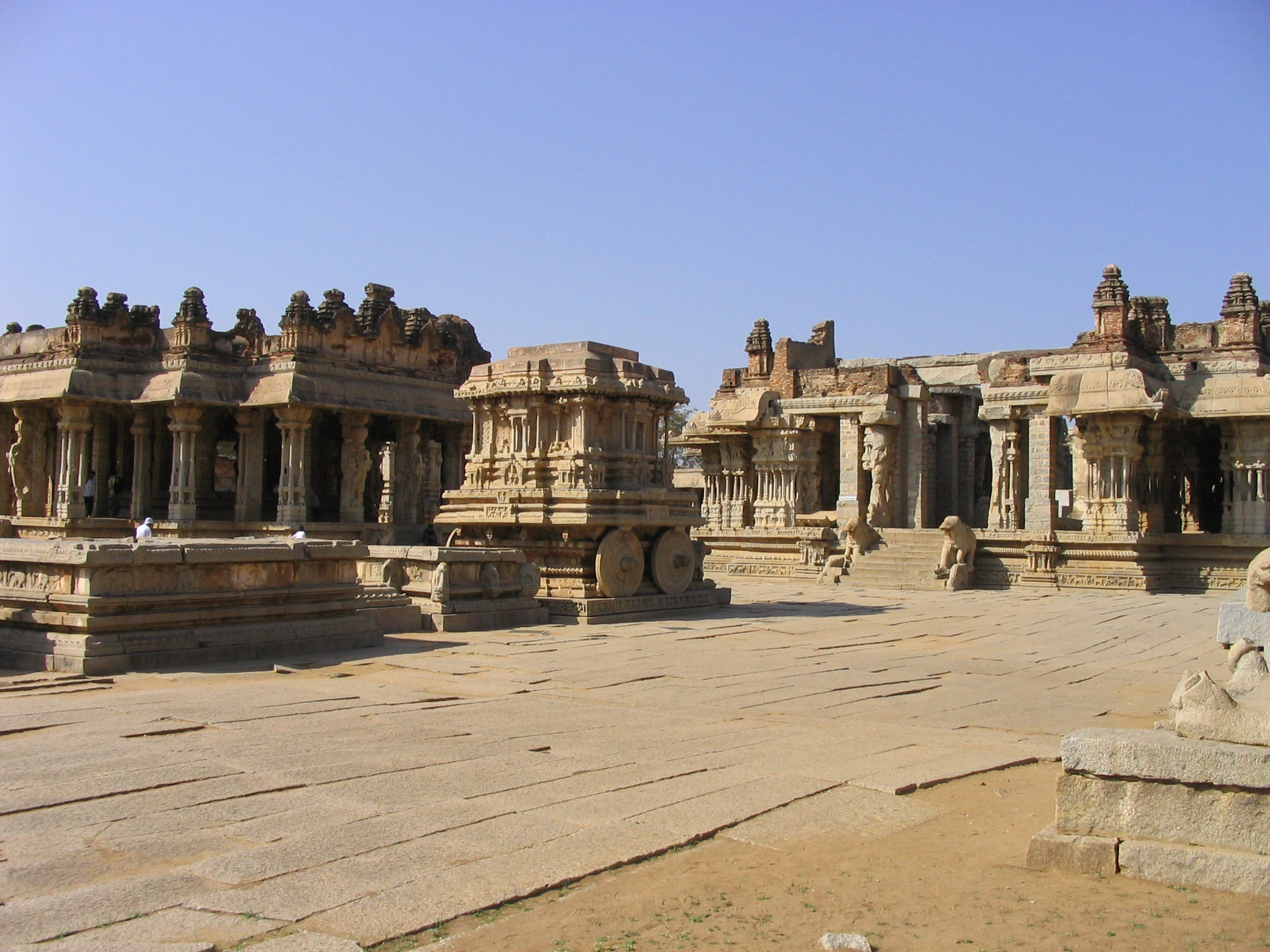 Vittala-Temple, Hampi, Vijananagar (Karnataka, India)